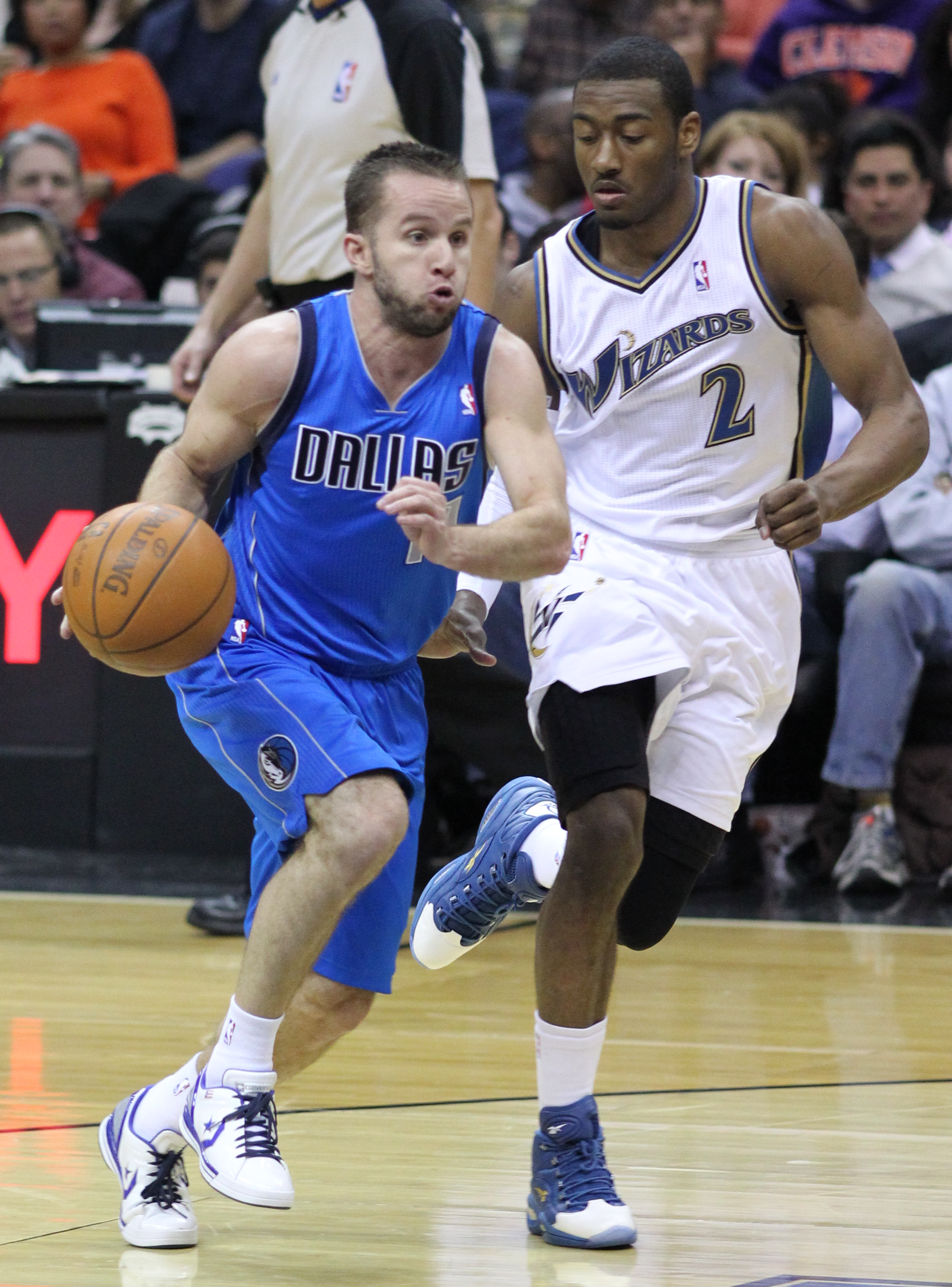 Wizards v/s Mavericks 02/26/11